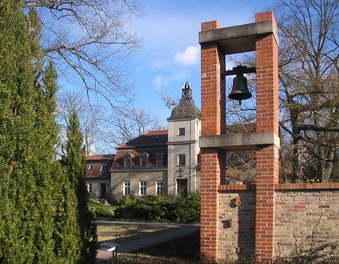 Kloster Alexanderdorf – Benediktinerinnenabtei St. Gertrud, a monastery for women in Kummersdorf-Alexanderdorf, part of the municipality Am Mellensee in the Teltow-Fläming district of Brandenburg, Germany. The Benedictine nunnery was founded in 1934 and was elevated in 1984 to an abbey.